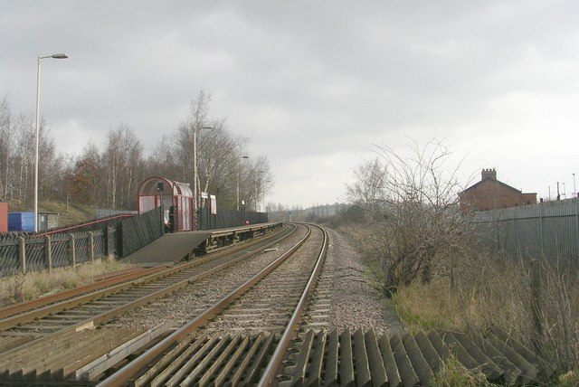 Platform 2 - Featherstone Station